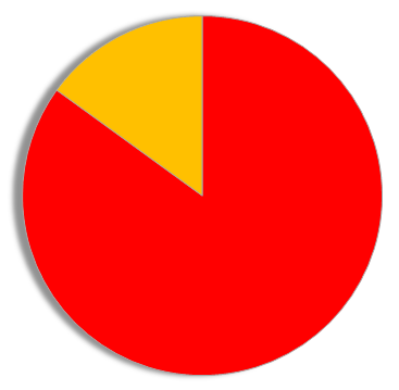 Expressed as a pie chart in the Gifu gubernatorial election in 2013, the number of votes for each candidate.